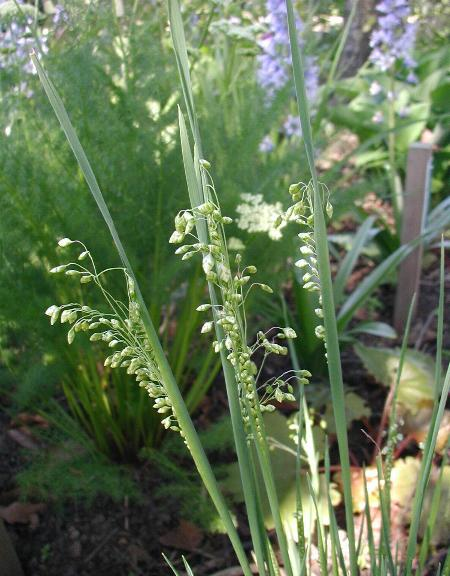 Briza-media: Young flowers and leaves.